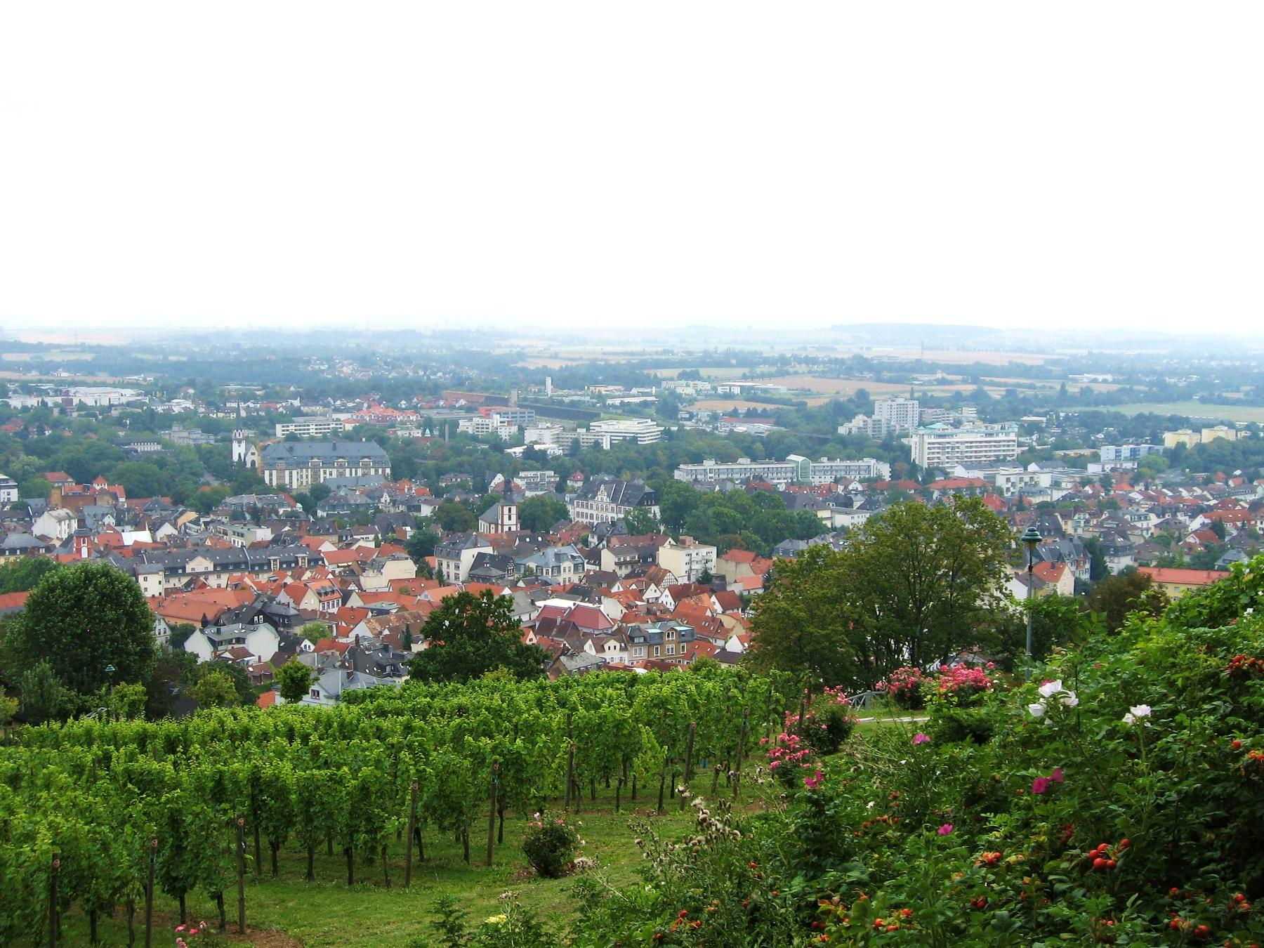 Germany / Hesse: View from the Mountain Johannisberg to Bad Nauheim